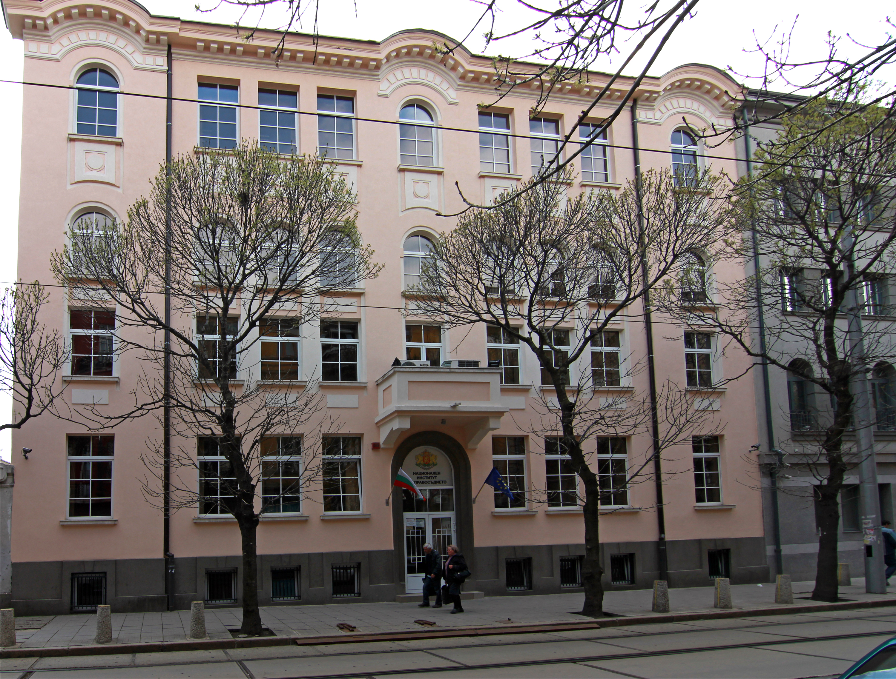 Bulgarian National Institute of Justice, 14 Ekzarh Yosif street Sofia, Bulgaria